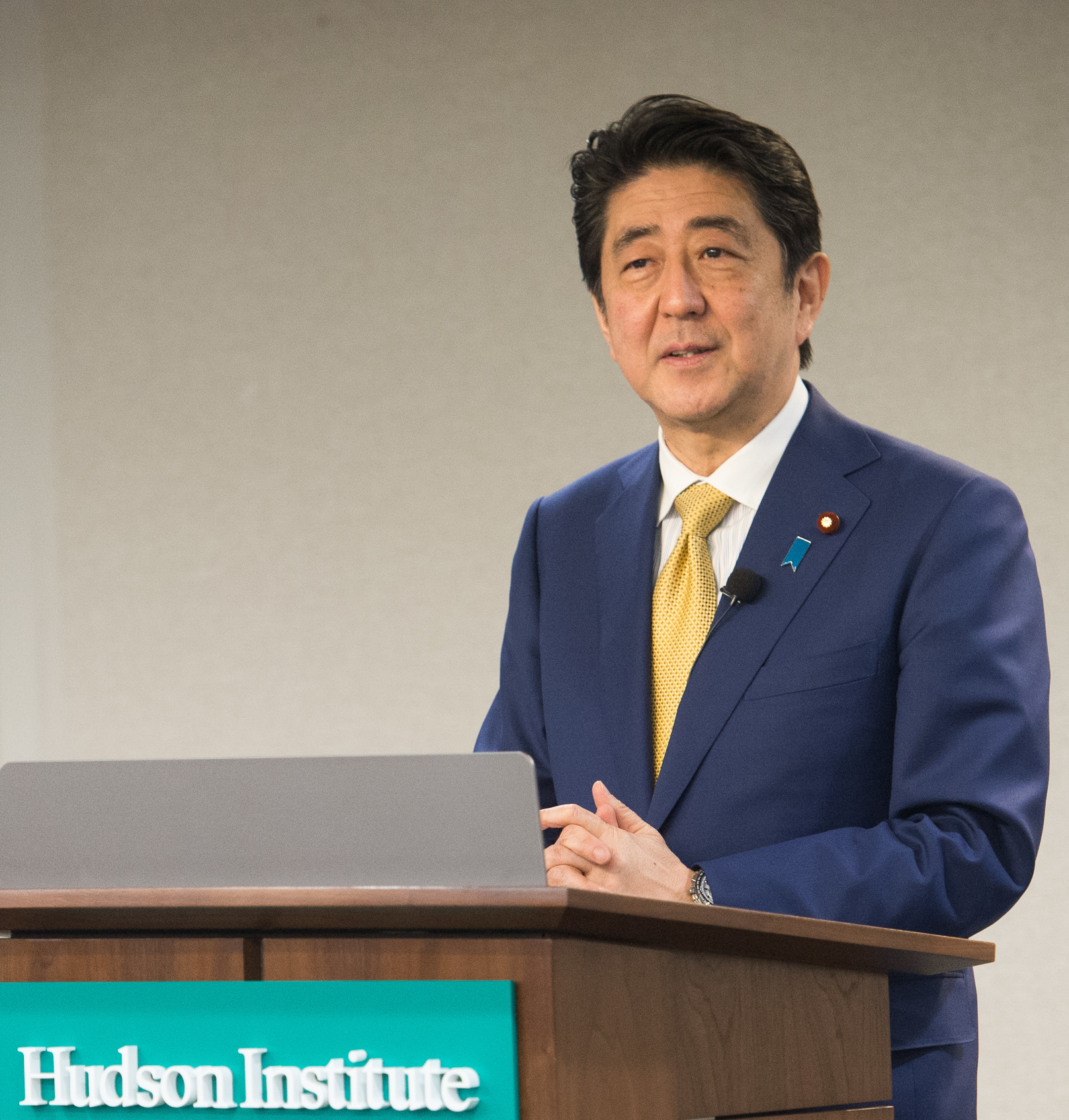 Opening of Hudson’s New Headquarters Featuring Prime Minister Shinzō Abe